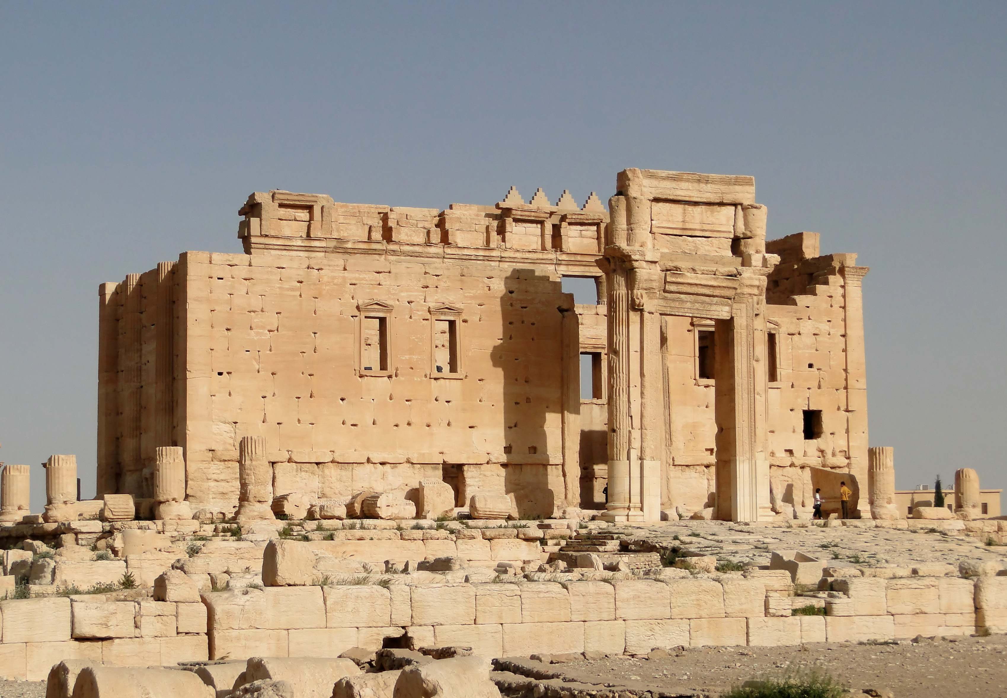 Temple of Bel, Palmyra, Syria